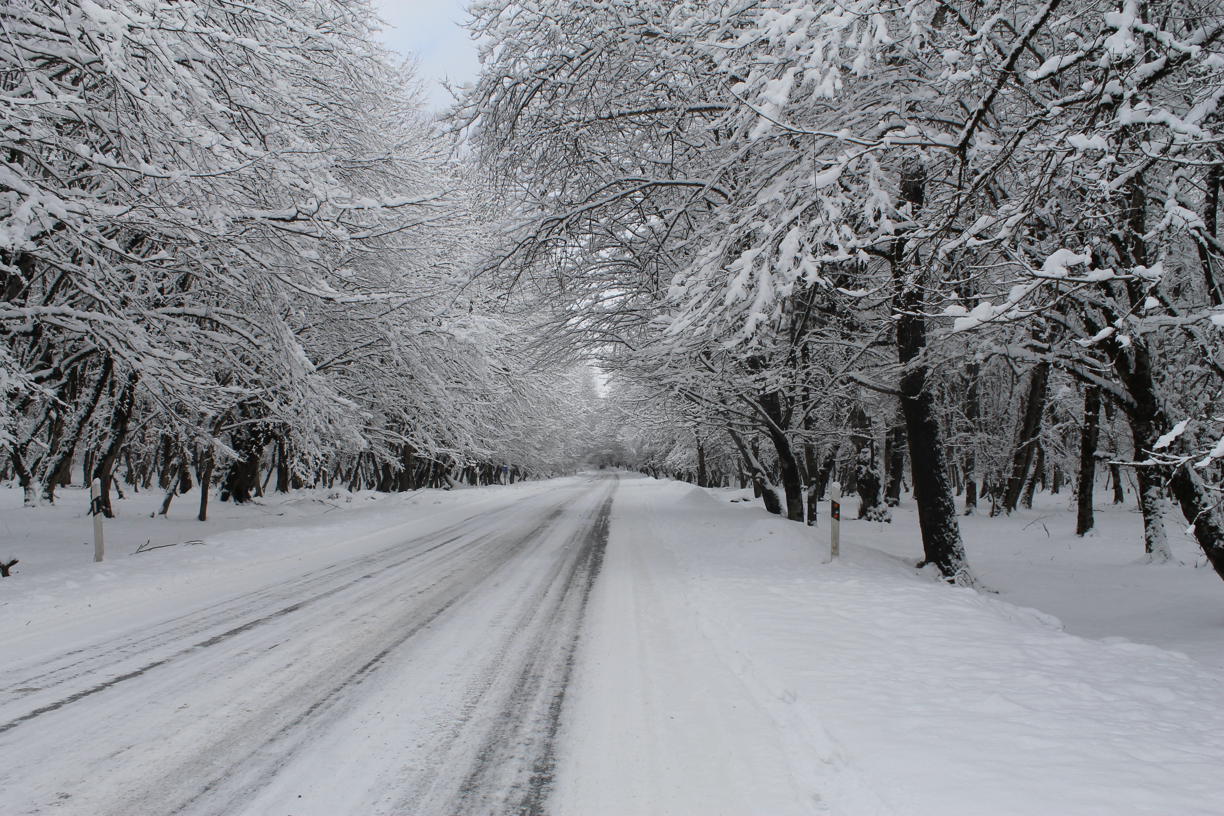 nofilter